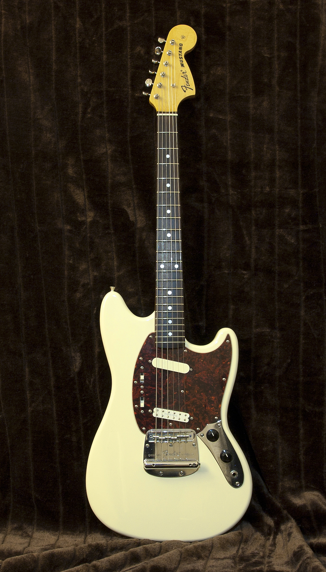 1998 Fender Mustang in White with Humbucker, the Humbucker was added and not original to the Mustang